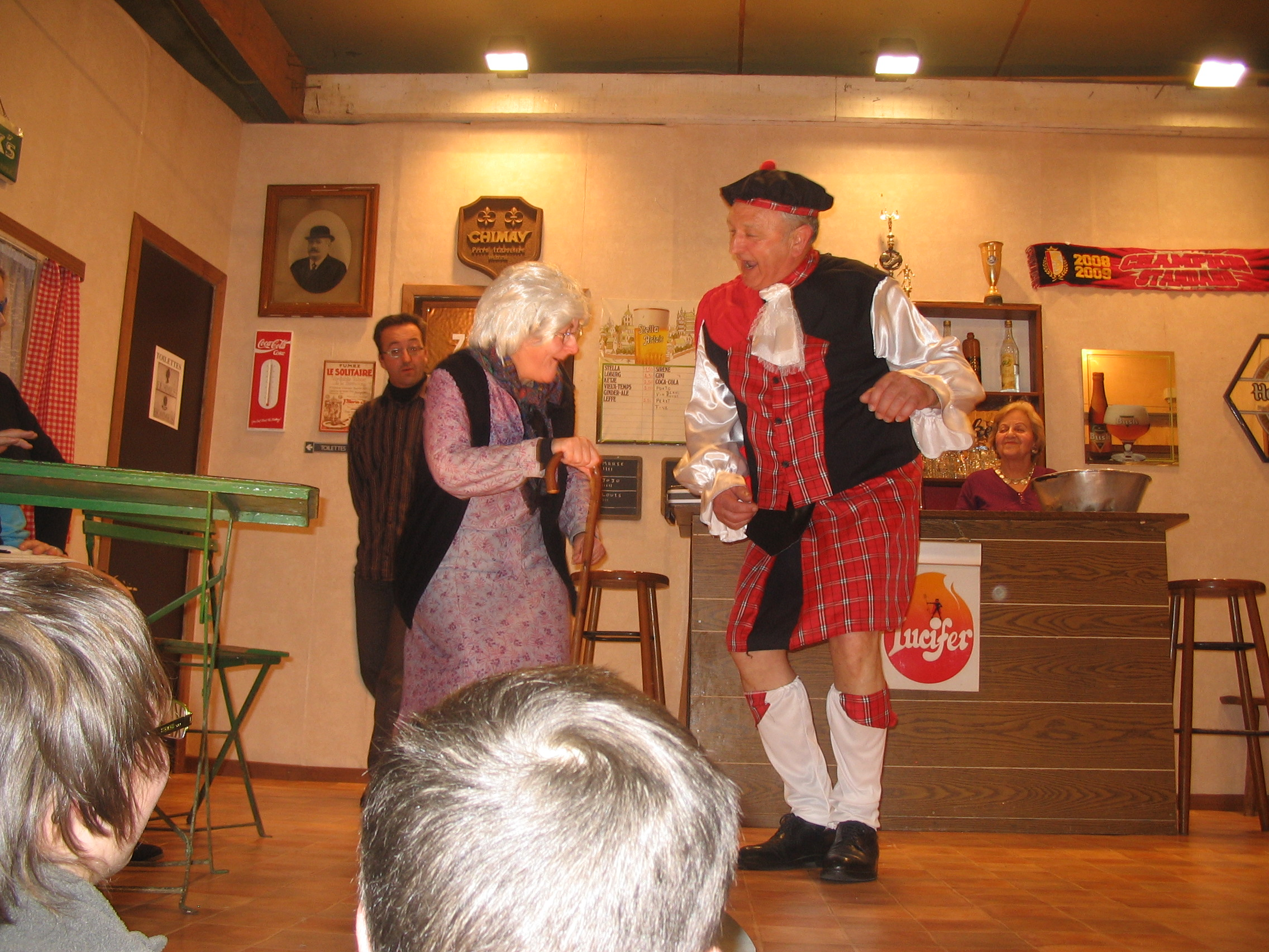 Walloon-speaking theater in Porcheresse-en-Ardenne Walon: Pîce Dins nosse pitit cåbaret da Christian Derycke djouwêye pal dramatike Le blé qui lève di Poitchrece-e-l'-Årdene